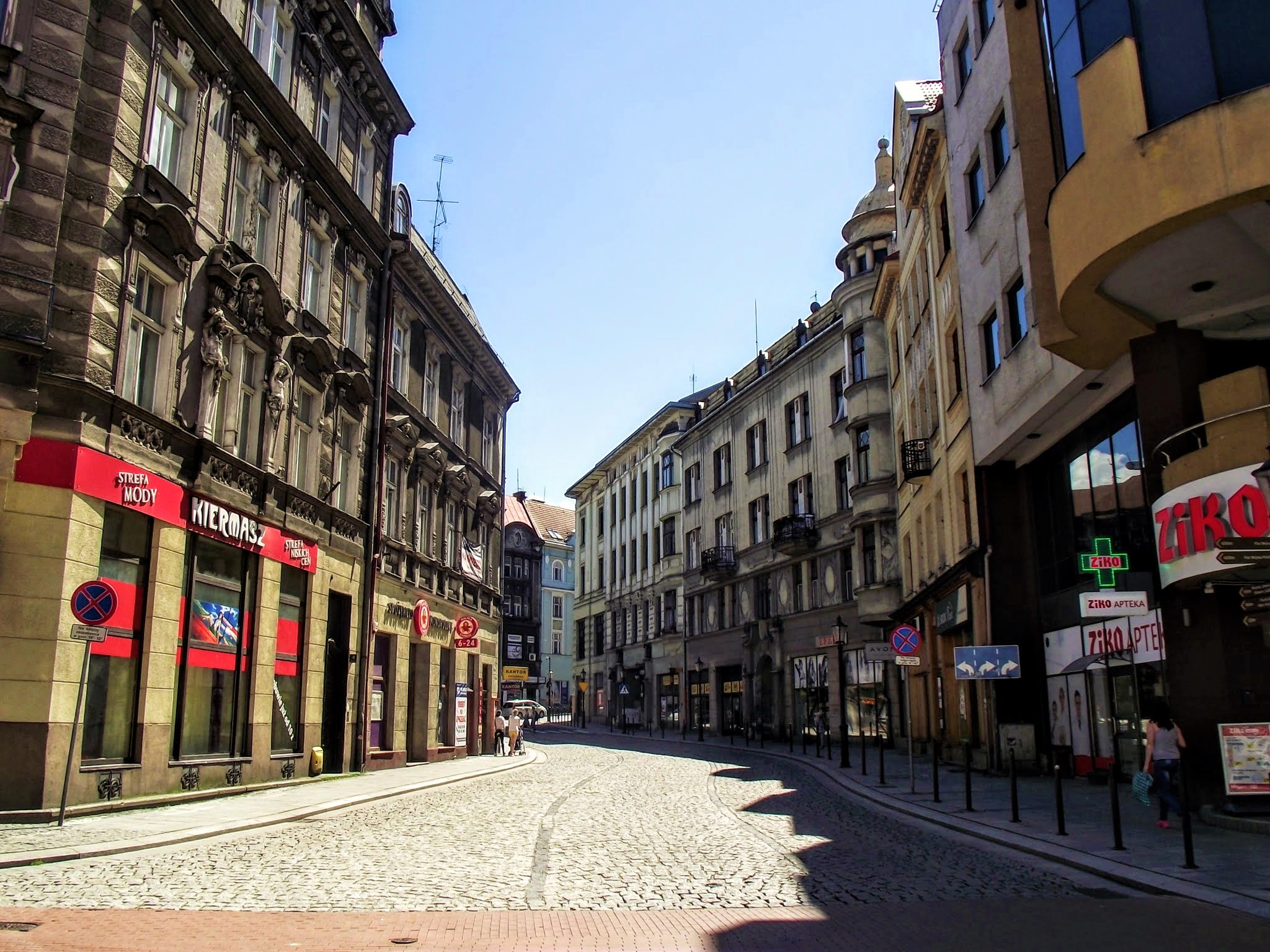 Bielsko-Biała, Norbert Barlicki Str. Wiew from intersection of Barlicki Str. with Przechód Schodowy Str. and 11 Listopada Str. to south.